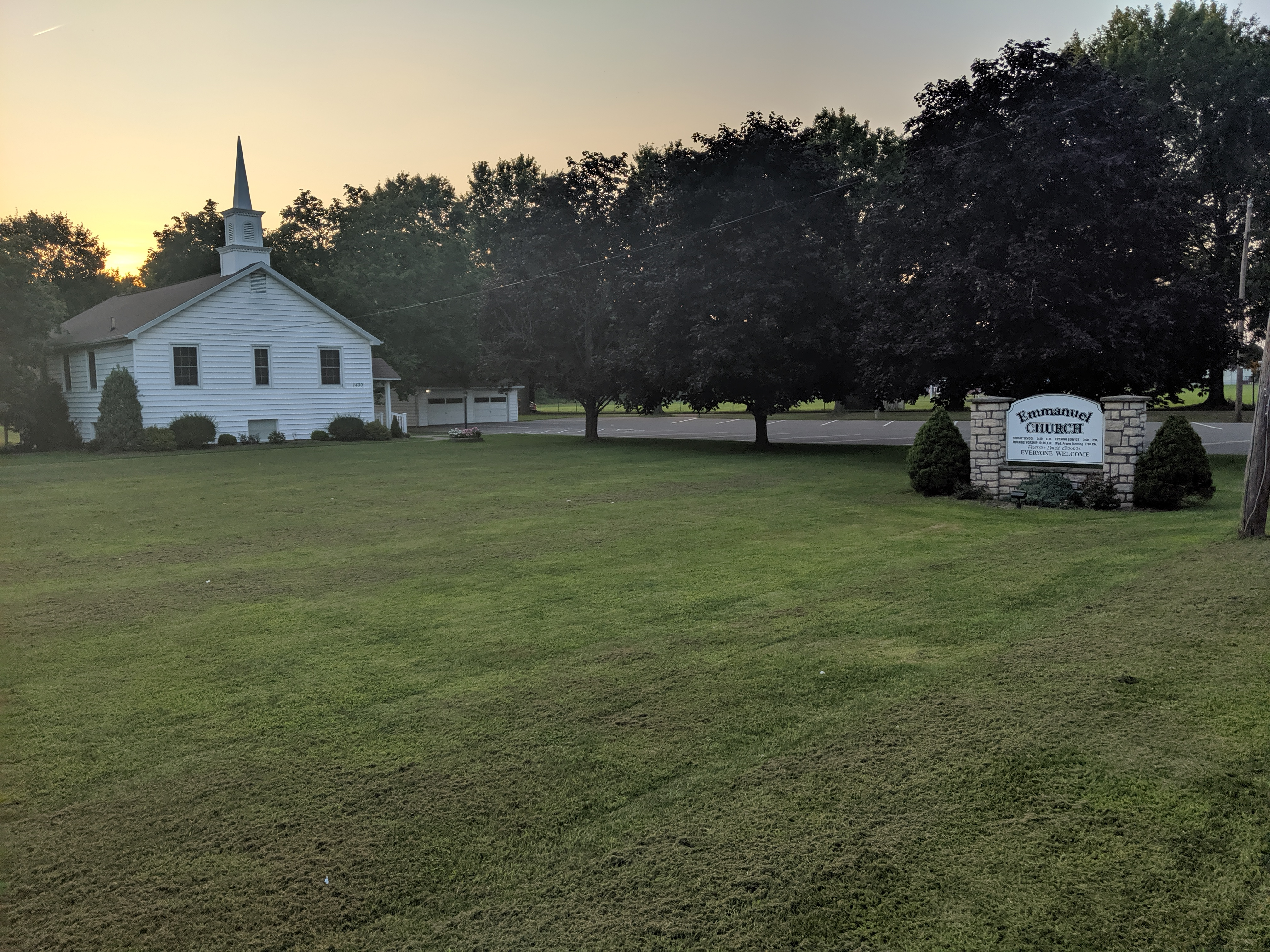 The image depicts Emmanuel Church (New Philadelphia, Ohio, United States). This picture was clicked on July 27, 2019.